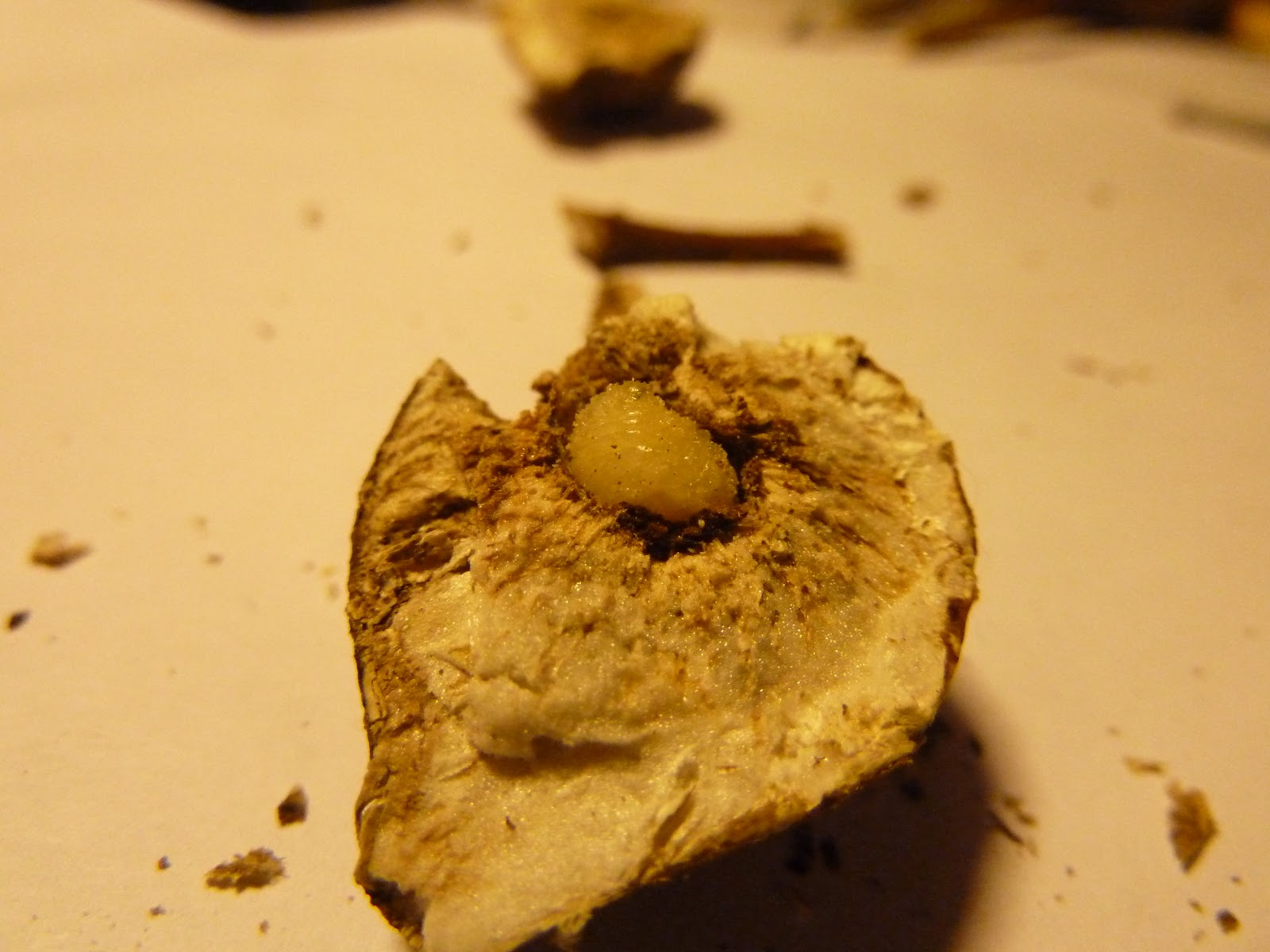 A dissected gall of the Goldenrod Gall Fly (Eurosta solidaginis) showing the fly larva in the inner chamber of the gall.